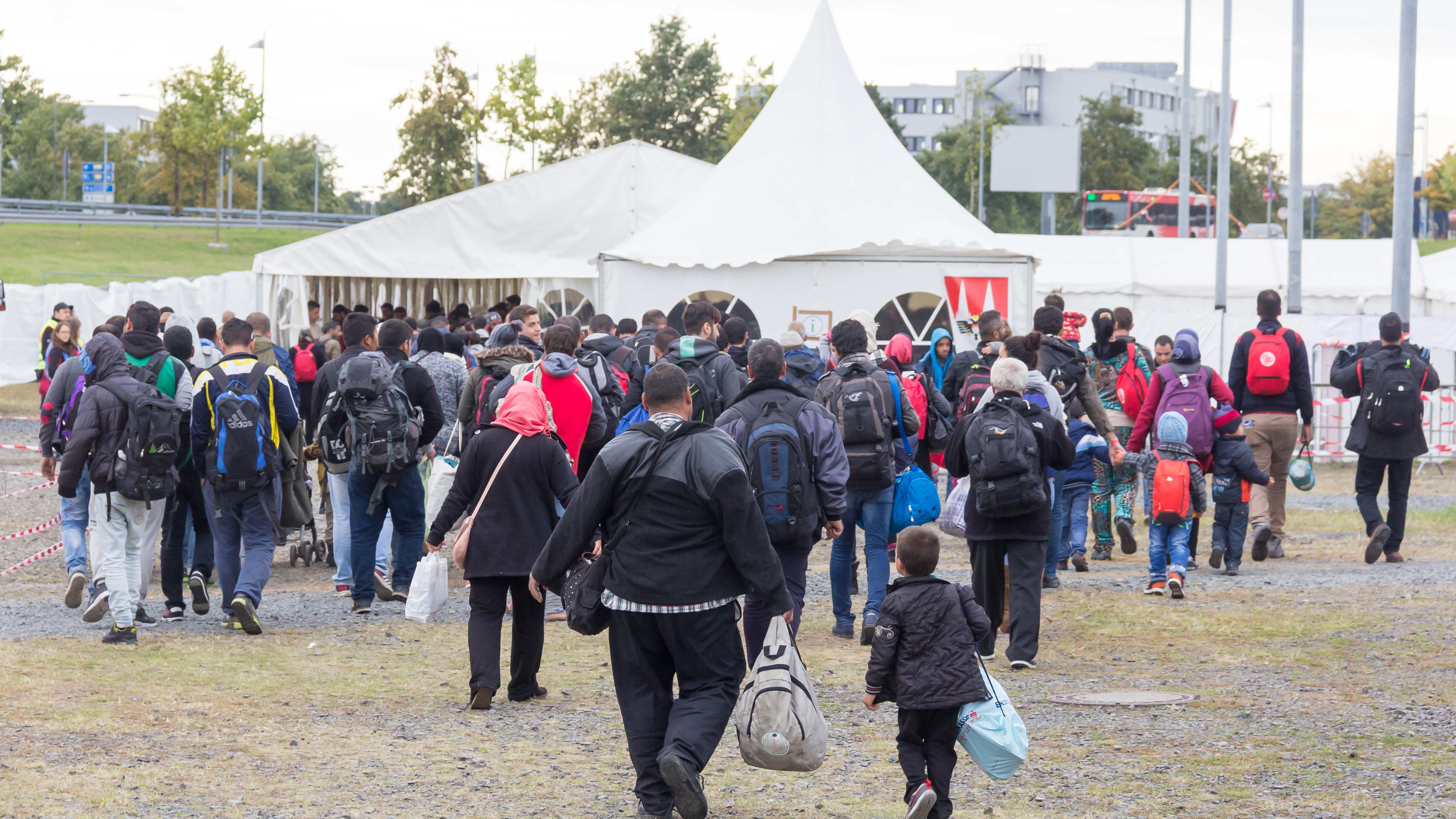 Arrival of refugees with a special train by Deutsche Bahn from the Austrian/German border at the station of Cologe/Bonn airport. In big tents on the ground the refugees can rest and eat, get new clothes and they can charge their smartphones. Medical assistance is available too. After ~ 2 hours the refugess will be transported by busses to buildings of the country of North Rhine-Westphalia